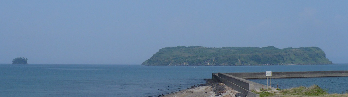 Chiringashima island in Kagoshima bay, Ibusuki city Kagoshima prefecture Japan. The photo was taken from Uomi-port in mainland Ibusuki city. The left island is called "Kojima" (small island).